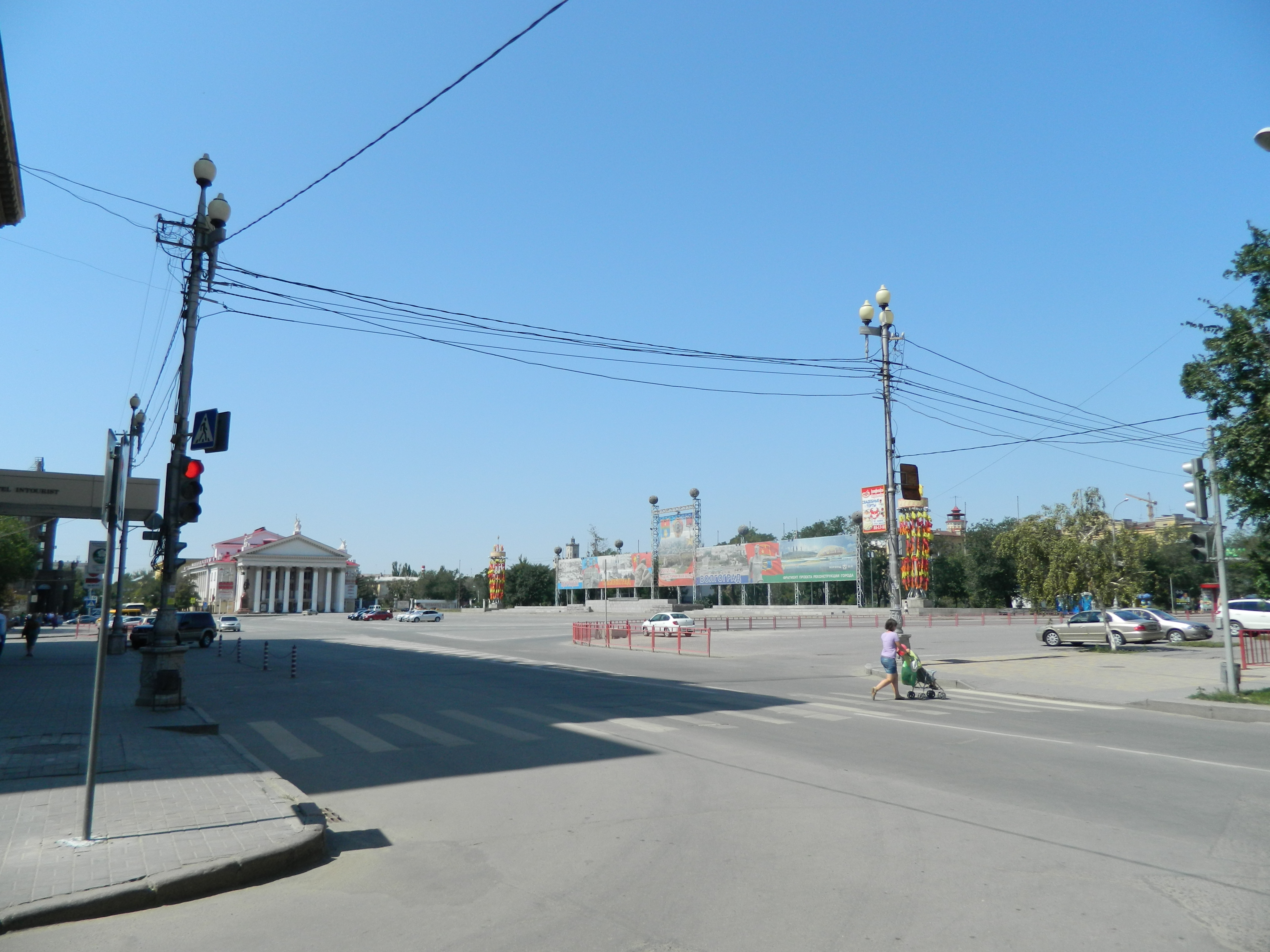 Square of Fallen Fighters (Pavshih Bortsov square) from Mira Street in central Volgograd.